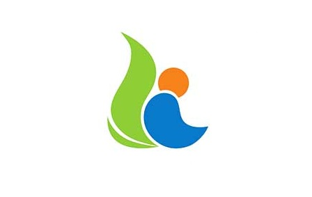 Flag of Kanonji Kagawa